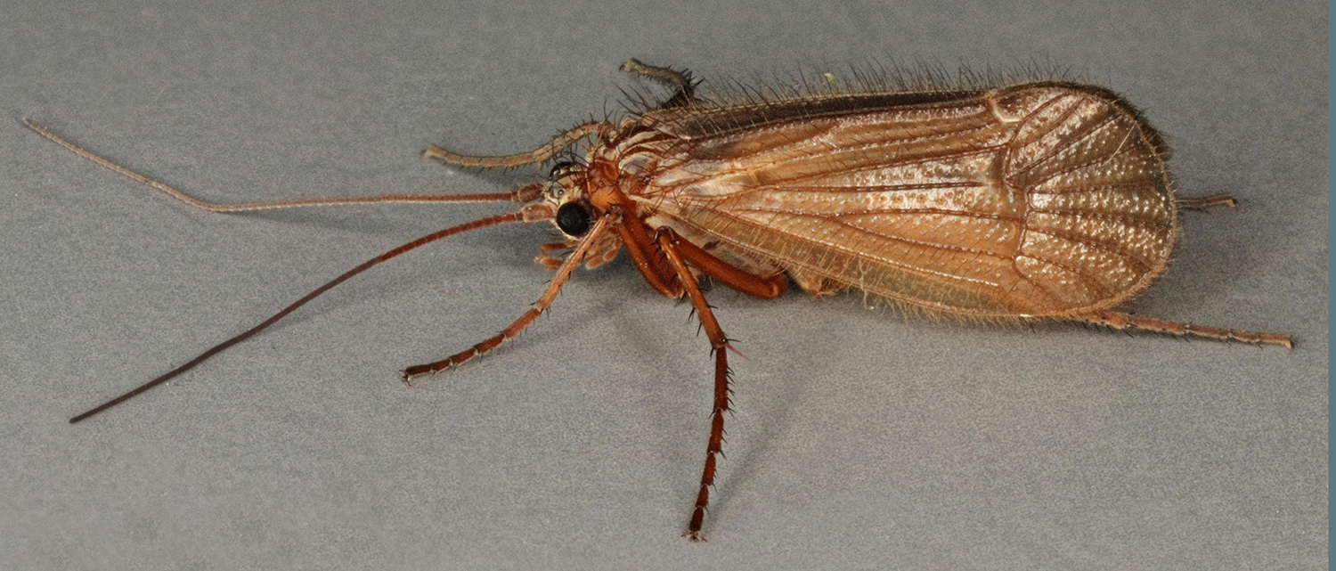 Chaetopteryx villosa, Limnephilidae, Trawscoed, North Wales, Oct 2013